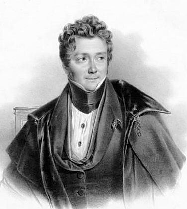 French pianist and composer Louis-Barthélémy Pradher (1782-1843) by Godefroy Engelmann (1788-1839) after Pierre-Roch Vigneron (1789-1872).